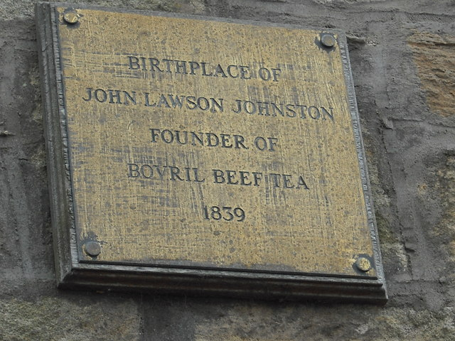 Bovril: plaque Above door on Main Street Roslin